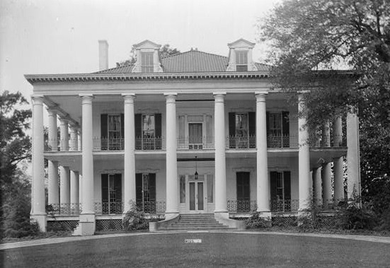 Dunleith — Homochito Street, Natchez (Adams County, Mississippi). 1936 photo from Historic American Buildings Survey of Mississippi (cropped).